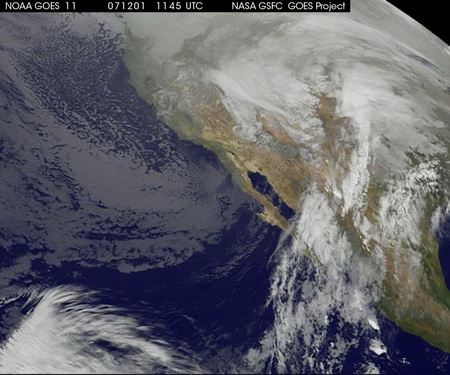 An image from "NASA-GSFC, data from NOAA GOES" of a weather pattern which resulted in a storm in southern Colorado on December 1, 2007 captured from using QuickTime. This version has been converted to a JPEG image. It is in the public domain as a product of the United States government. It illustrates the results of penetration of a cold front from the northern Pacific into the subtropical zone west of Mexico. This combined with subtropical moisture which was pumped northward into the southwestern United States producing heavy snow at higher elevations and rain at lower elevations. The storm made national news as it moved on into the Midwest and New England.[1][2] Notes ↑ "Snow and Ice Leave Midwest Snarled" Associated Press, December 2, 2007 ↑ "Disruptive Storm Hits the Northeast" Associated Press article in The New York Times December 3, 2007